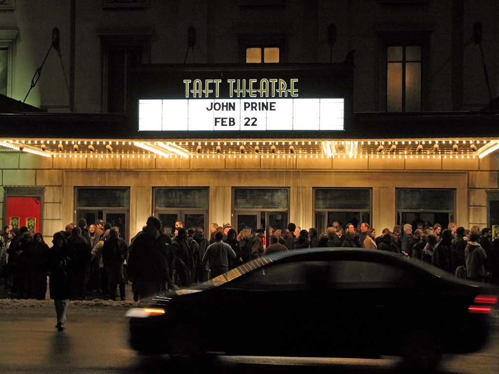 Outside of Taft Theatre after a John Prine show.